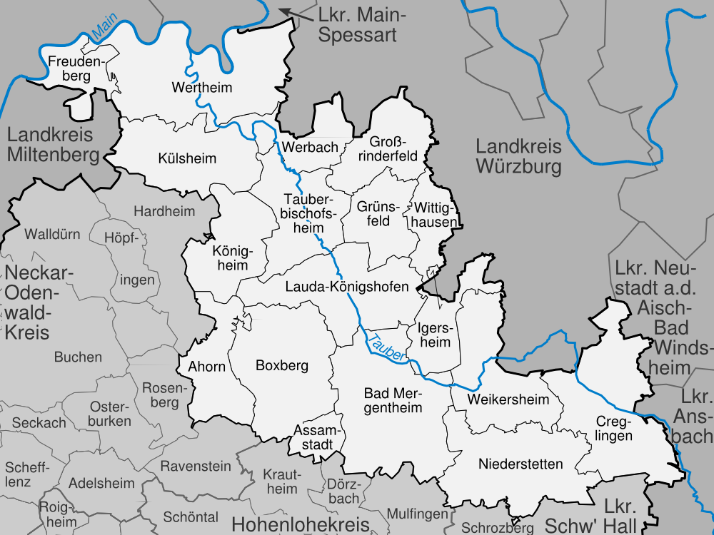 municipalities in the Main-Tauber-Kreis, Baden-Württemberg, Germany.